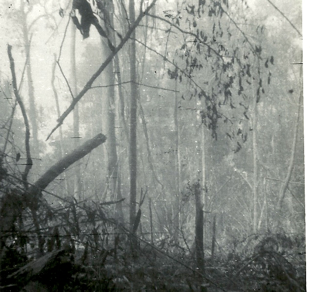 The Dense Jungle of LZ Brace.